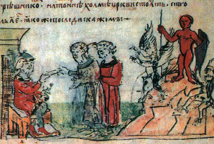 The prince Vladimir I in 980 year makes orders at an idol of Peruna. (A miniature №111 from Radzivill Chronicle)